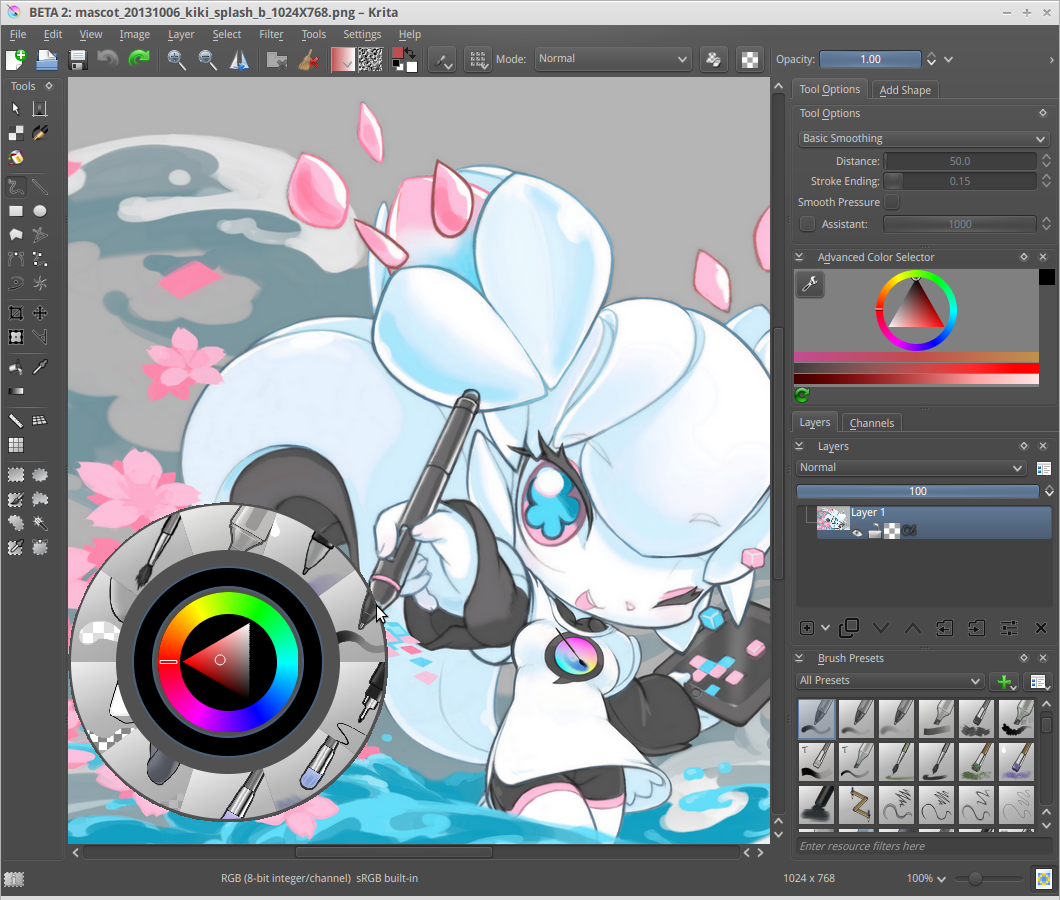 This is the screenshot of Krita 2.8 running in Trisquel GNU/Linux 6.0 (Gnome Classic). Showing the default interface. The character on the canvas is Kiki the Cyber Squirrel, Krita's Mascot.中文（中国大陆）: 这是Krita 2.8在Trisquel GNU/Linux 6.0（Gnome Classic桌面环境）下运行的截图。本图展示了Krita的默认用户界面。画布上的图是电子松鼠Kiki（琪琪），Krita的吉祥物。